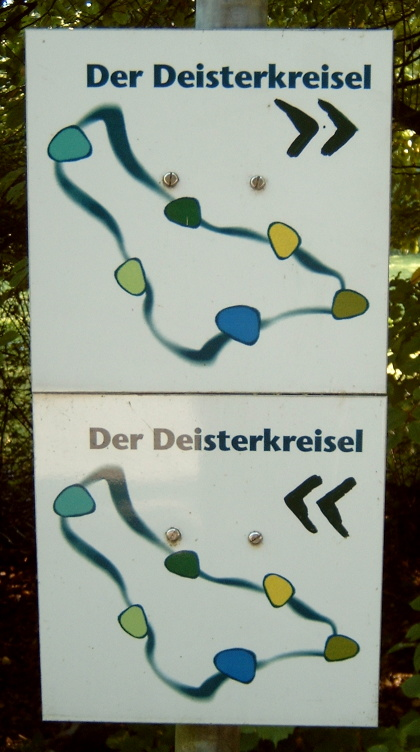 cycle track "Deisterkreisel", official signposts